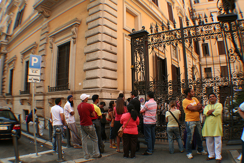 Visa applicants outside the Indian Embassy in Rome, Italy (here seen from southwest)